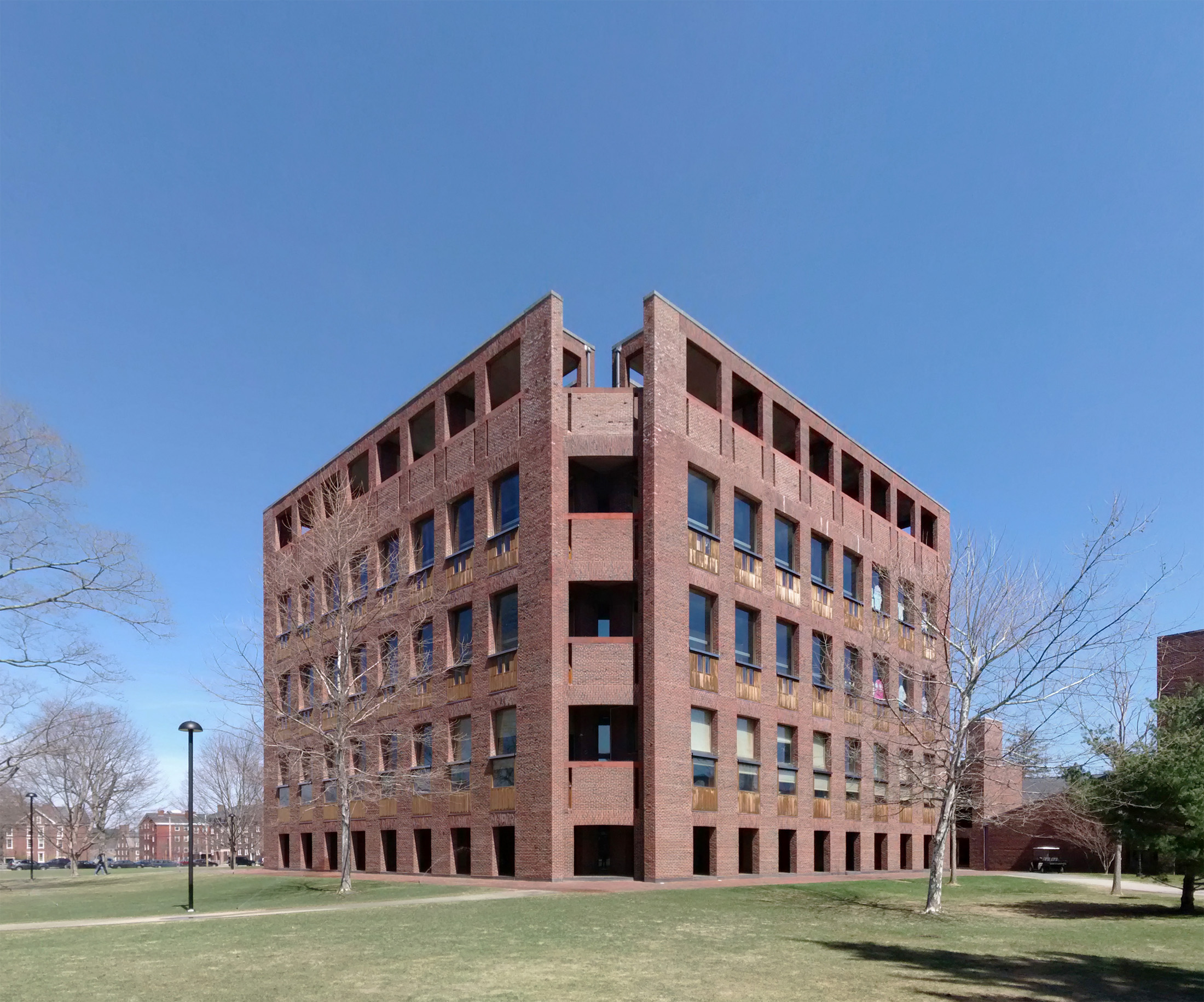 Phillips Exeter Academy Library, Louis Kahn, Exeter, New Hampshire, Apr. 2014